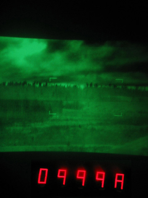 Description = Leopard 2a4 EMES 15 thermal image, 4x magnification Author = I took the picture myself Date = 14.1.2006 Copyright = Teemu Korhonen (Proximax, view profile to confirm identity. Copy of the original document of Proximax's real name and time in the military can be found here. Social security number has been edited out for safety reasons.)